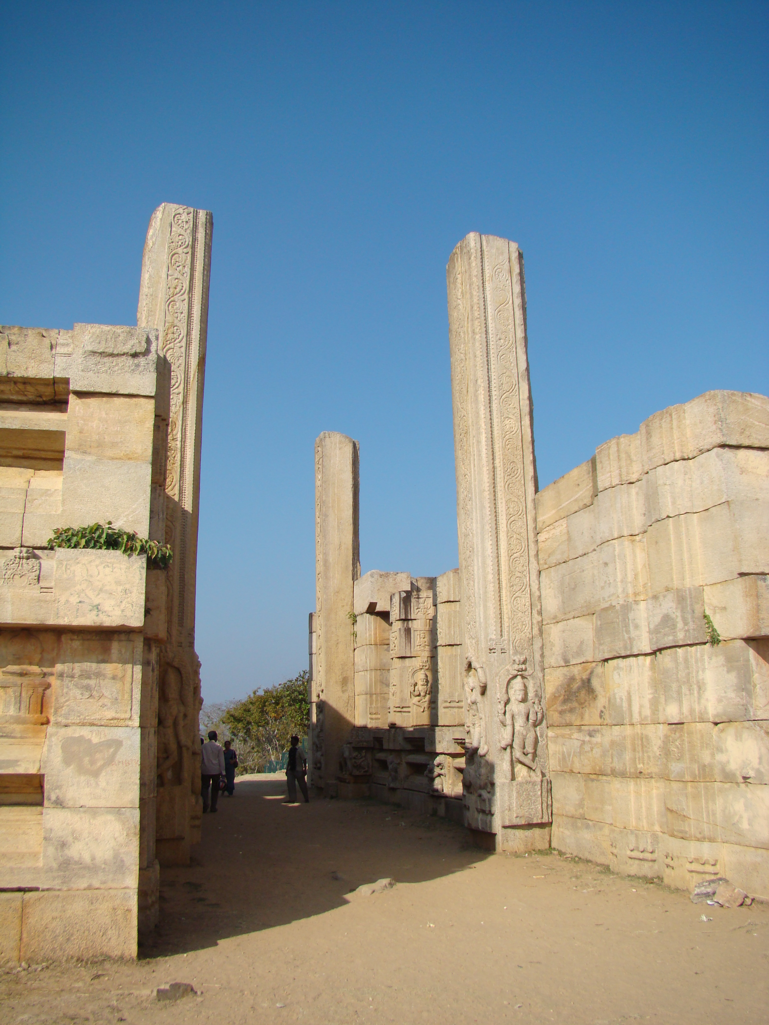 The famous shooting spot.